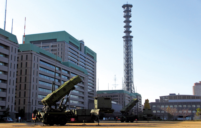 PAC-3 deployed at the Japan Ministry of Defense